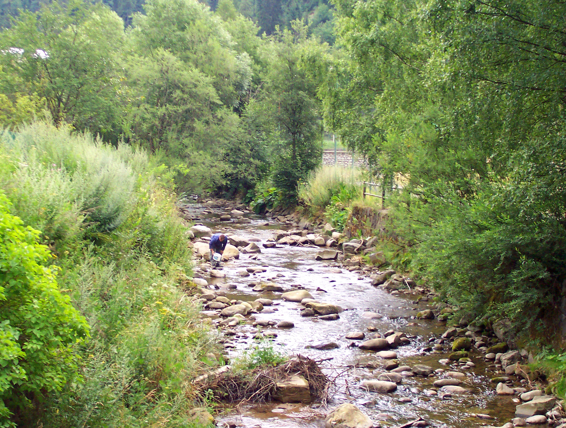 Blatná creek at Habovka village. Orava, Slovakia